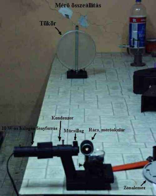 Own work